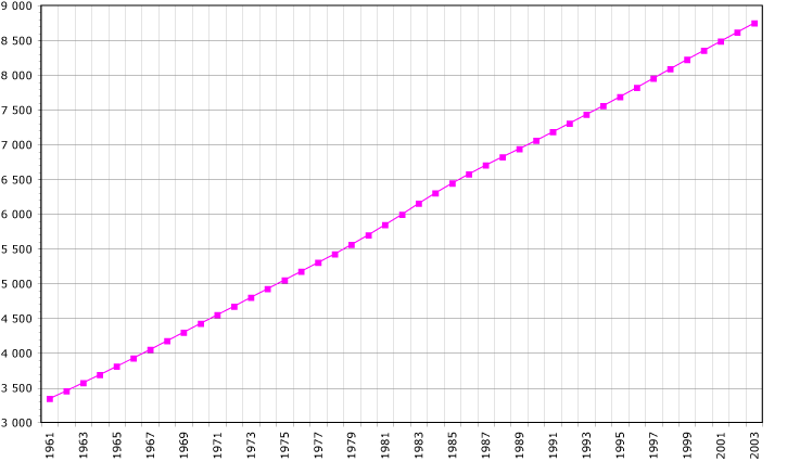 Dominican Republic's population (1961-2003)